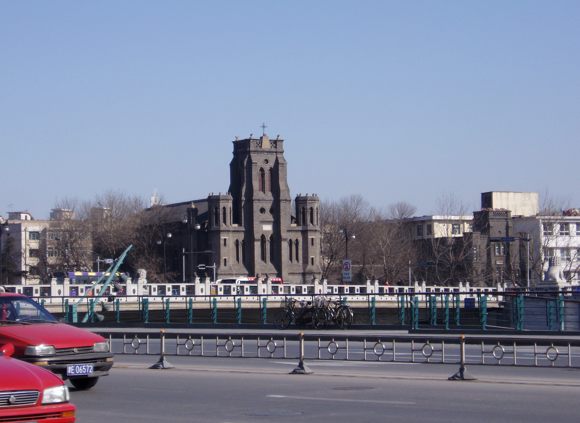 Tianjin Sea Watchtower Church